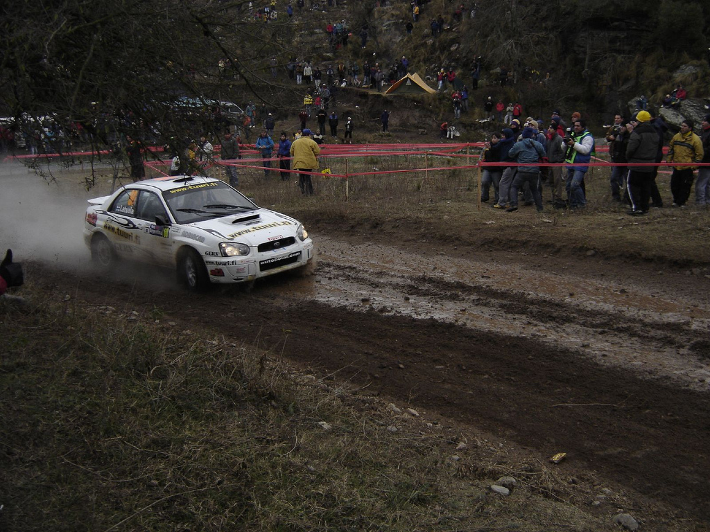 Jari-Matti Latvala driving a Group N Subaru Impreza WRX STI at the 2005 Rally Argentina.